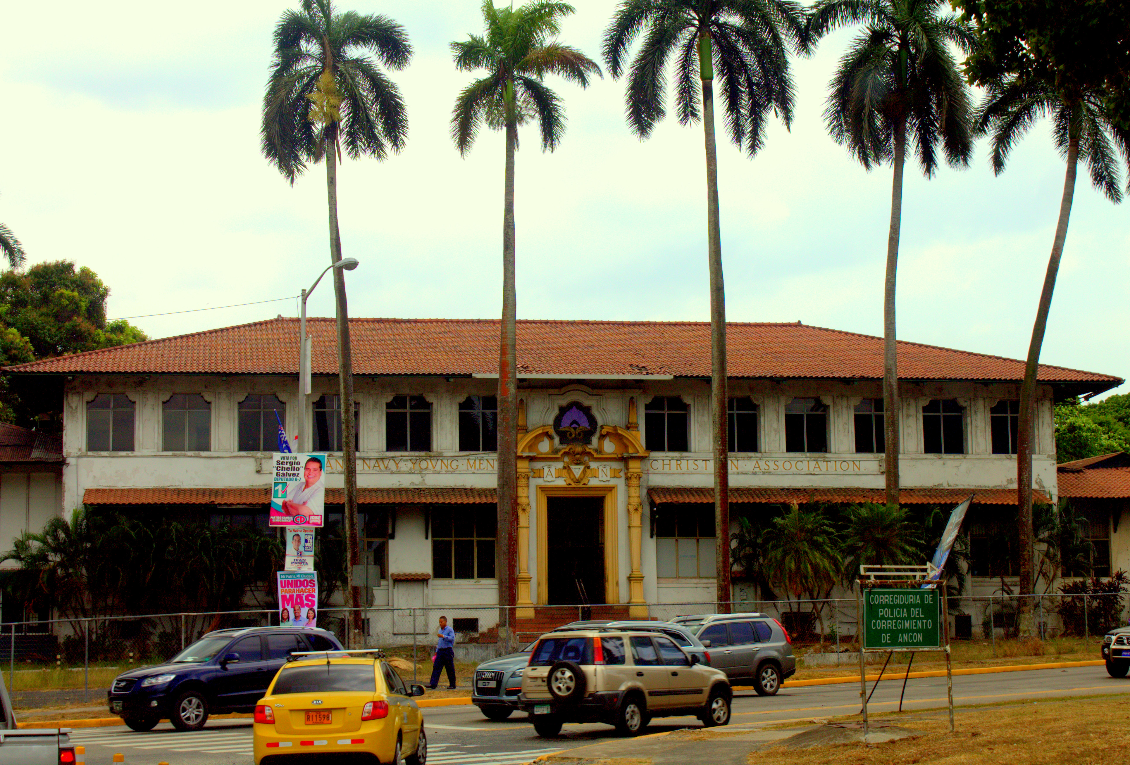 It is a photograph of the exterior of the former Army/Navy YMCA building in the Canal Zone.